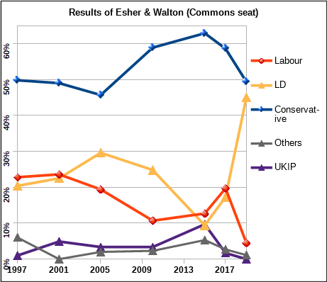 Election graph showing results for Esher and Walton since 1997.